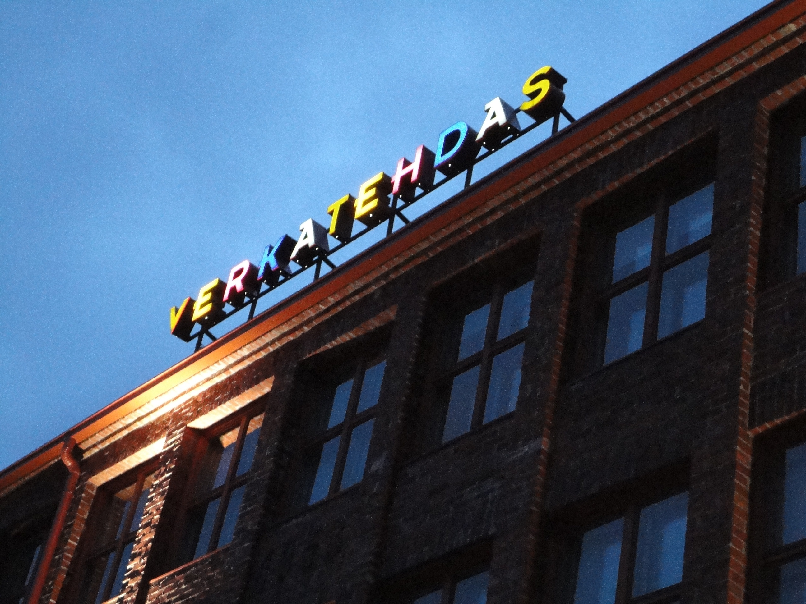 Verkatehdas, Hämeenlinna, Finland